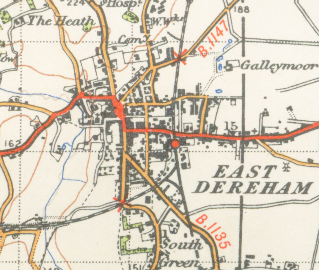 Map of East Dereham from 1946. Scale 1 inch to the mile 600DPI Sheet 125